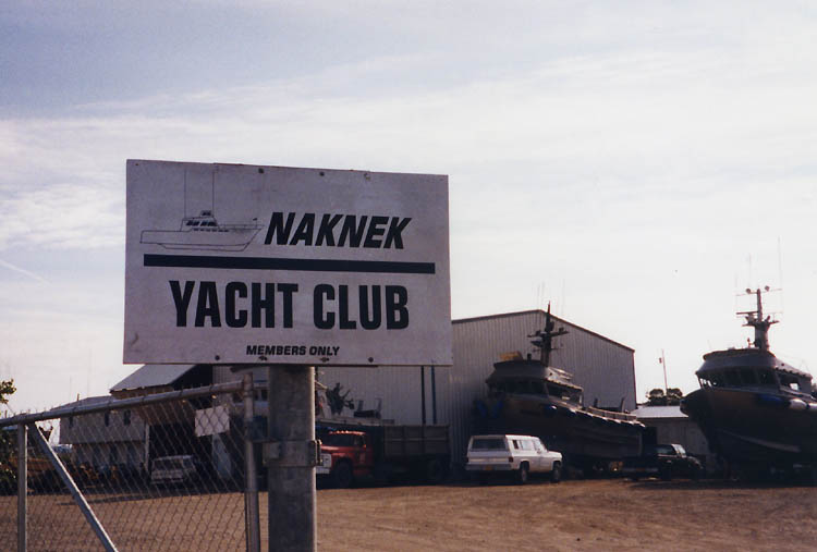 Photo of Naknek, Alaska "Yacht Club"